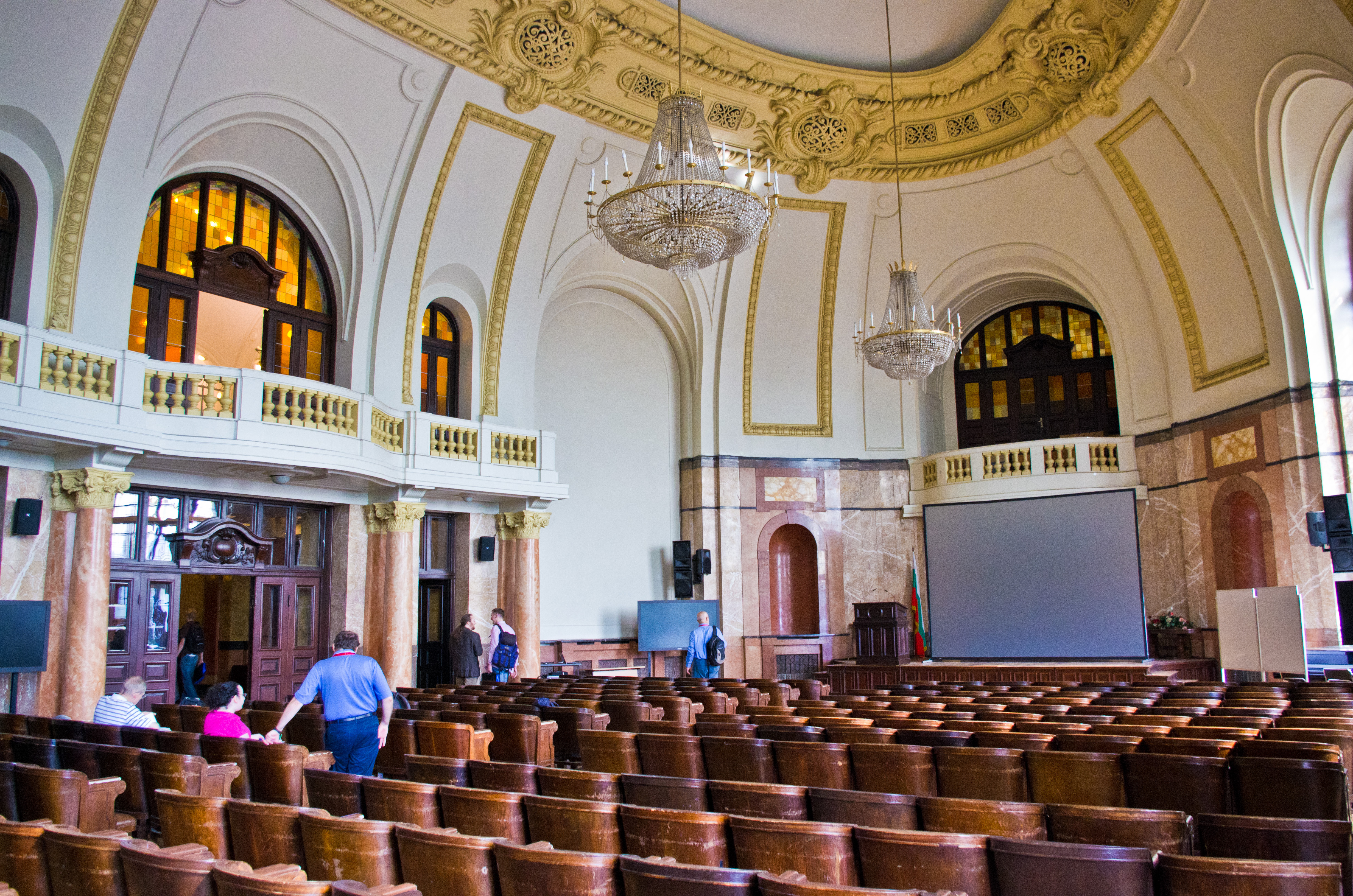 Aula room in Rectorate, Sofia University